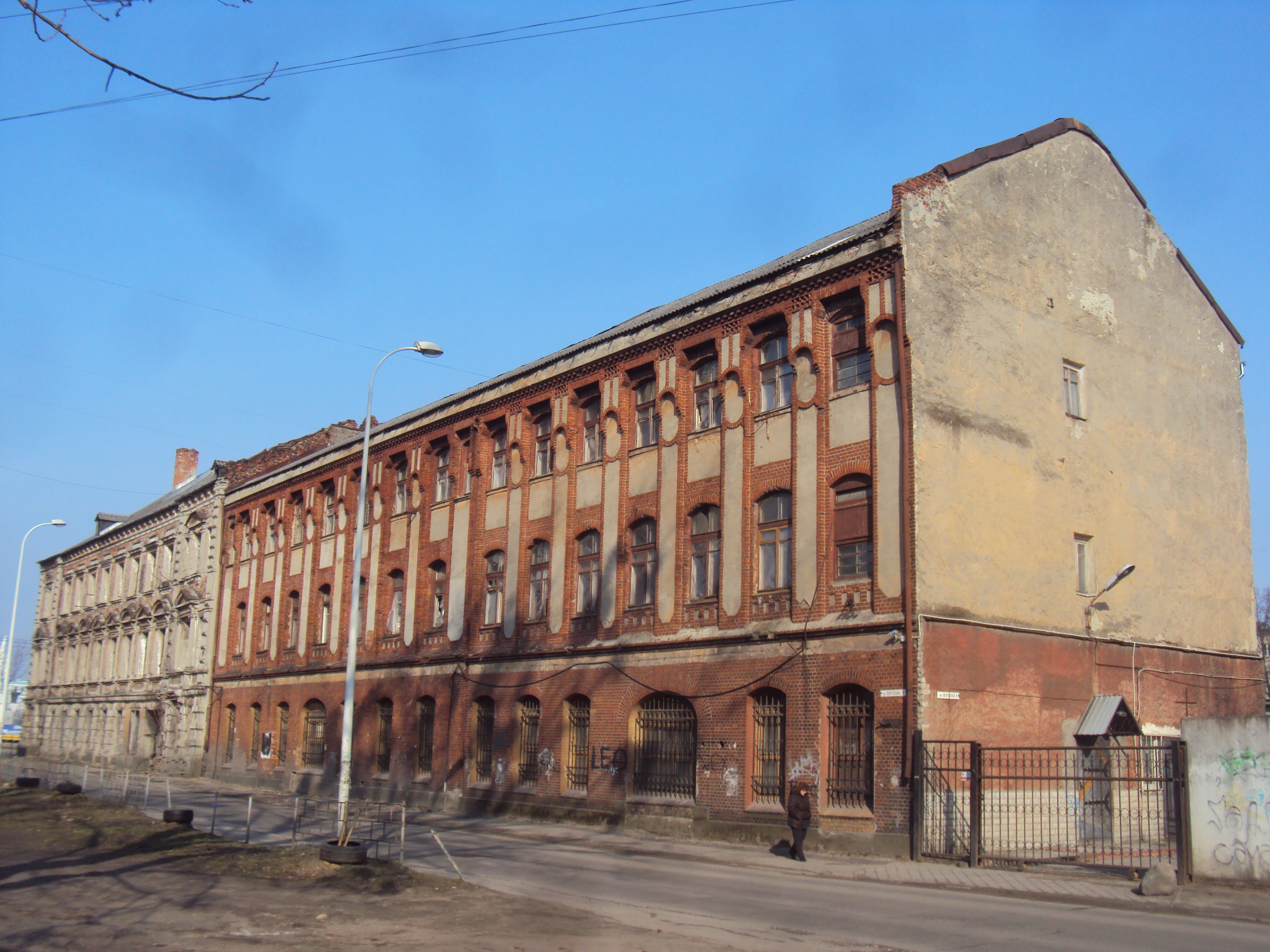 Building Amber Manufactory